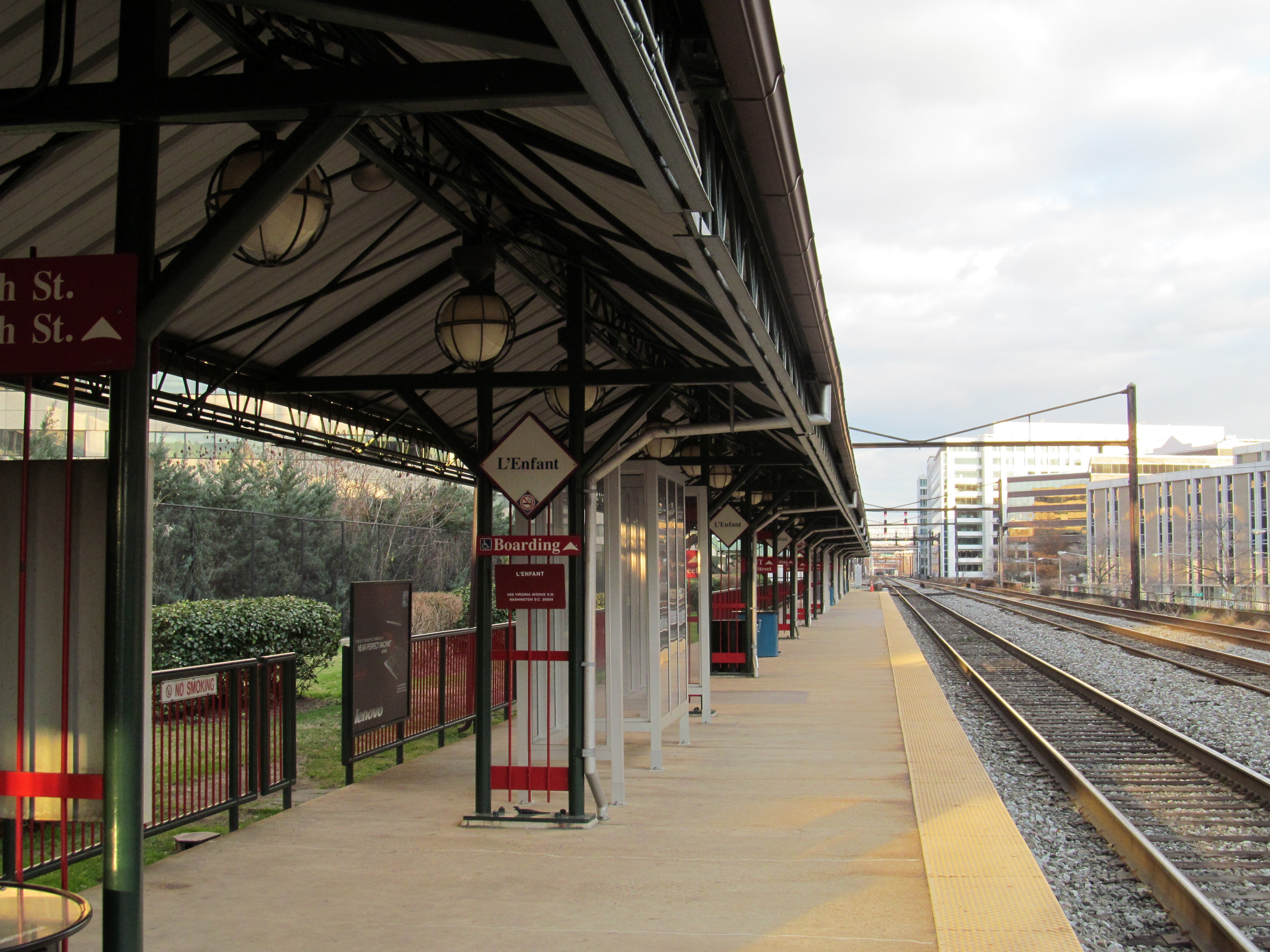 L'Enfant Plaza station in December 2011